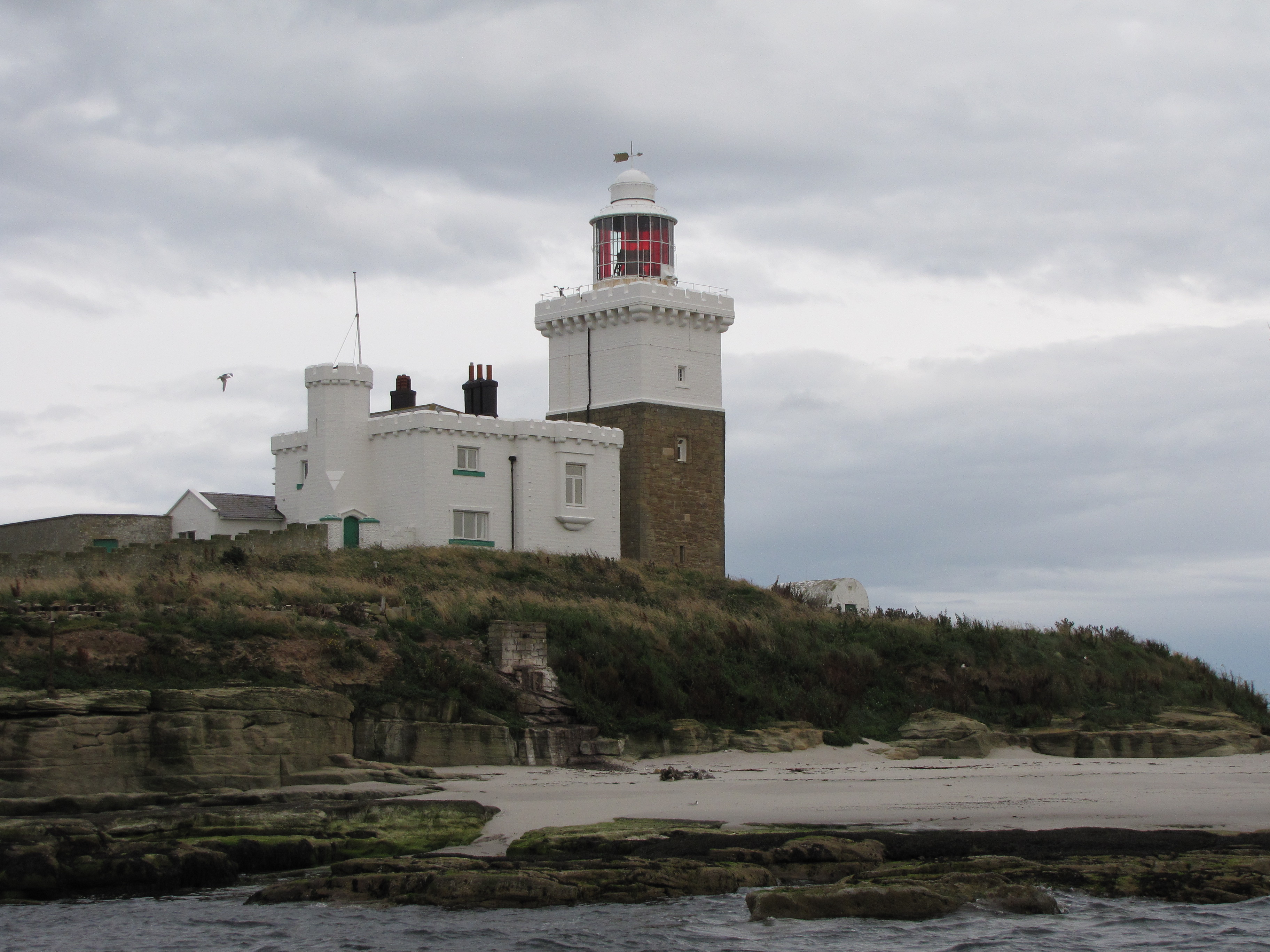 The lighthouse on Coquet Island, Northumberland, England